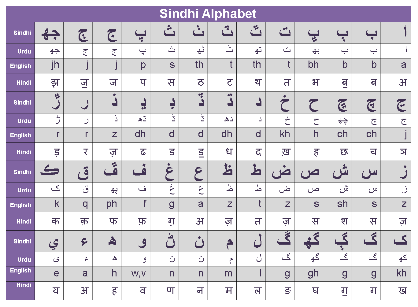 Sindhi alphabet with equivalent characters in English, Urdu and Hindi.